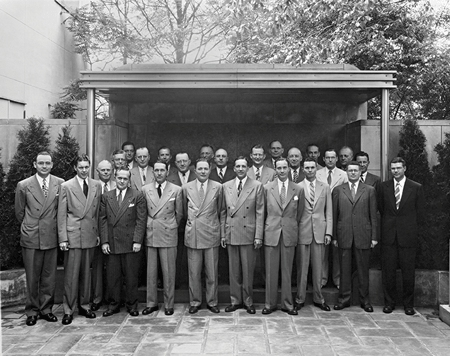 Photograph of the Ford Whiz Kids